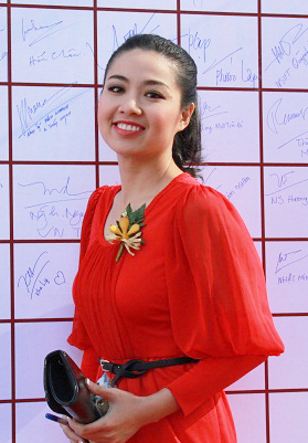 Lê Khánh cropped by User:Beyoncetan